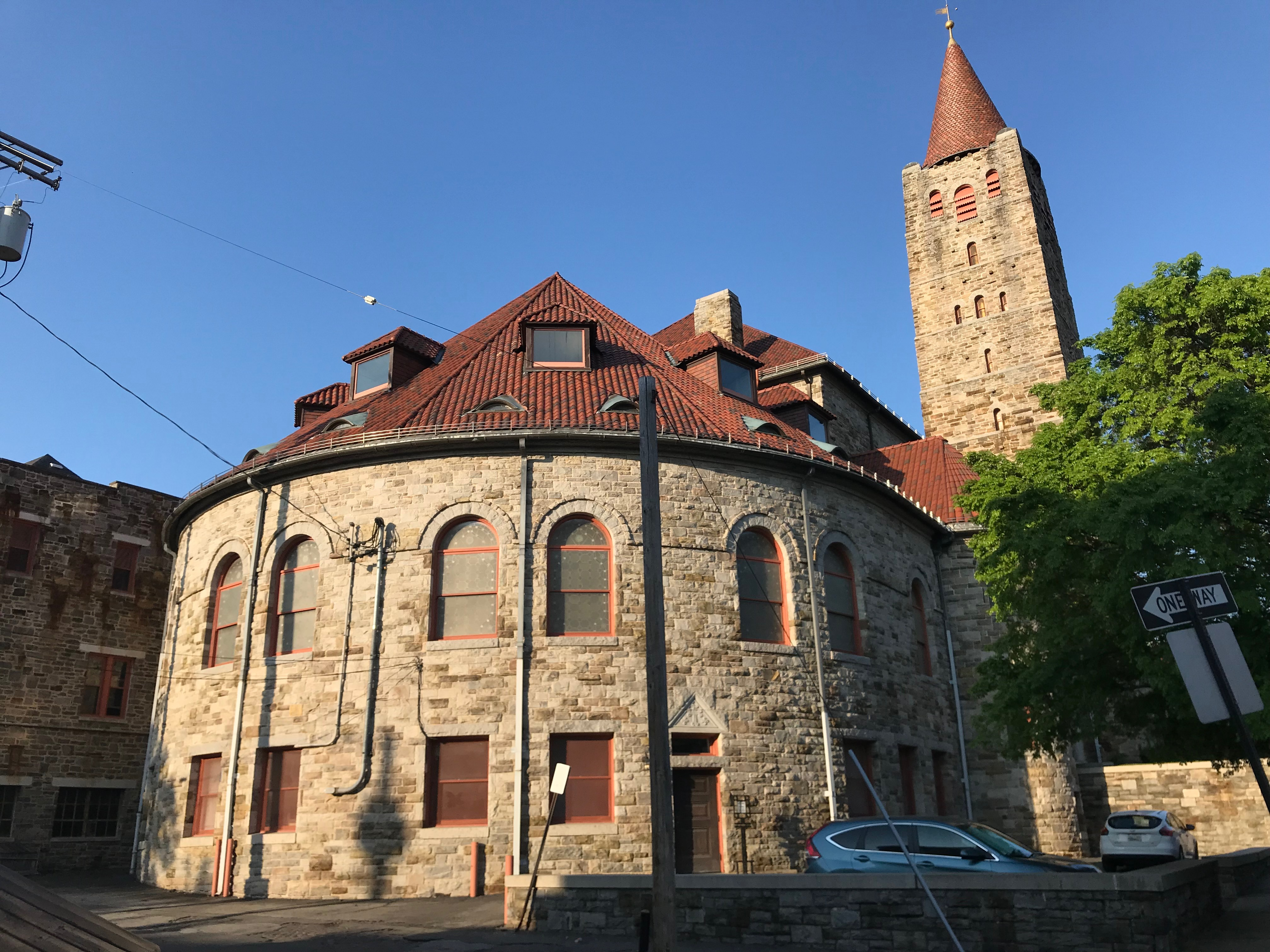 Photograph by Eli Pousson, 2018 May 9.